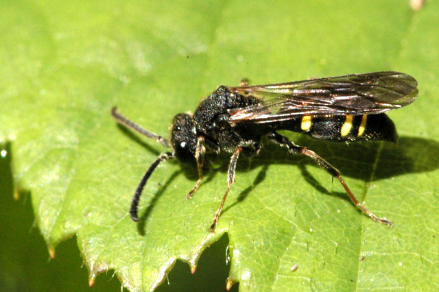 Nysson spinosus from Commanster, Belgian High Ardennes .